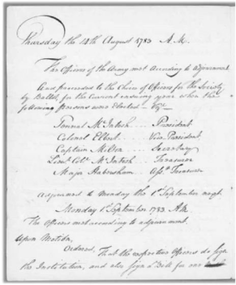 Founding documents of the Society of the Cincinnati in the State of Georgia prepared by the first secretary John Milton. Source: "Georgia in the American Revolution An Exhibition from the Library and Museum Collections of The Society of the Cincinnati." May 01, 2004. Accessed November 22, 2015.